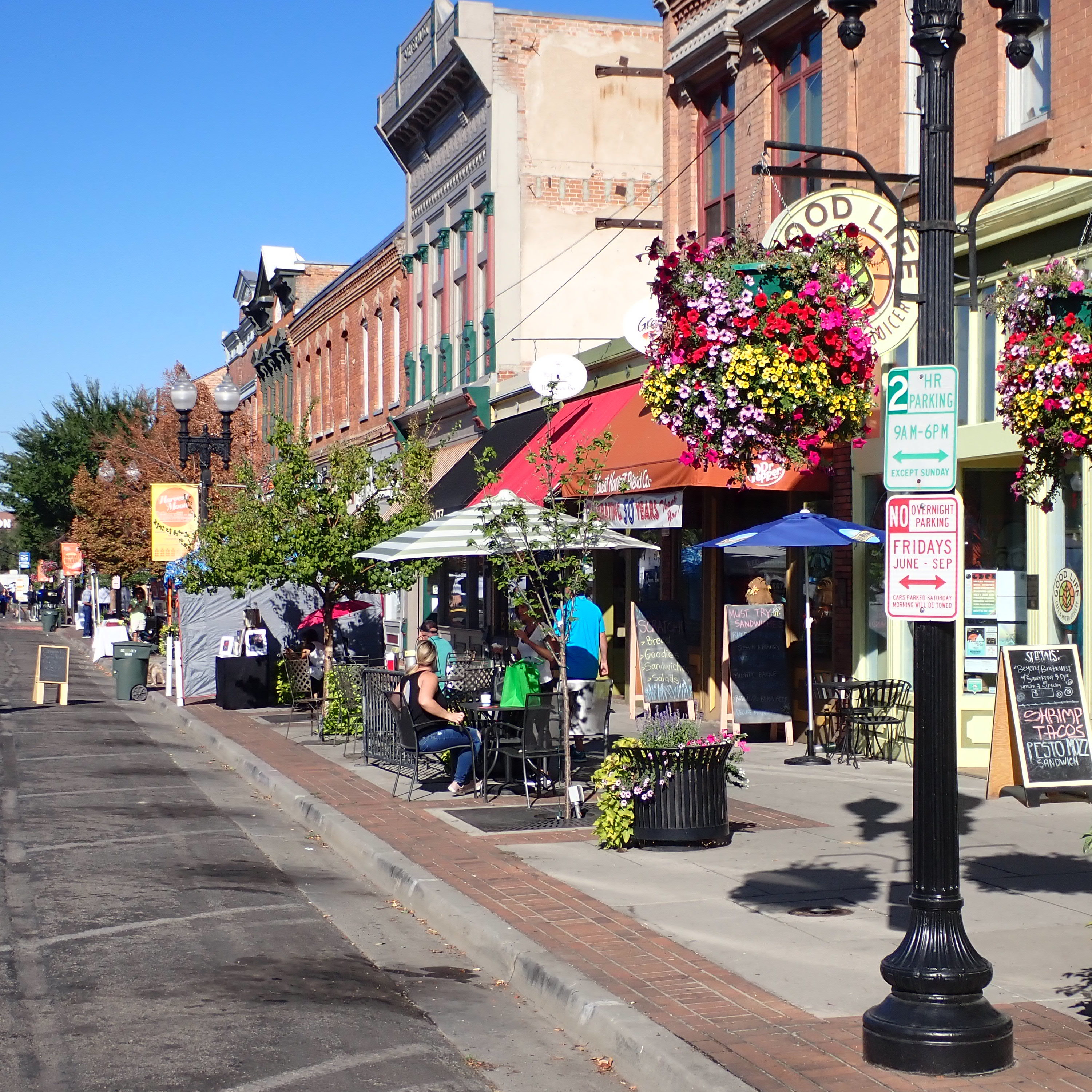 Farmersmarket, 25th Street, Ogden, Utah, USA